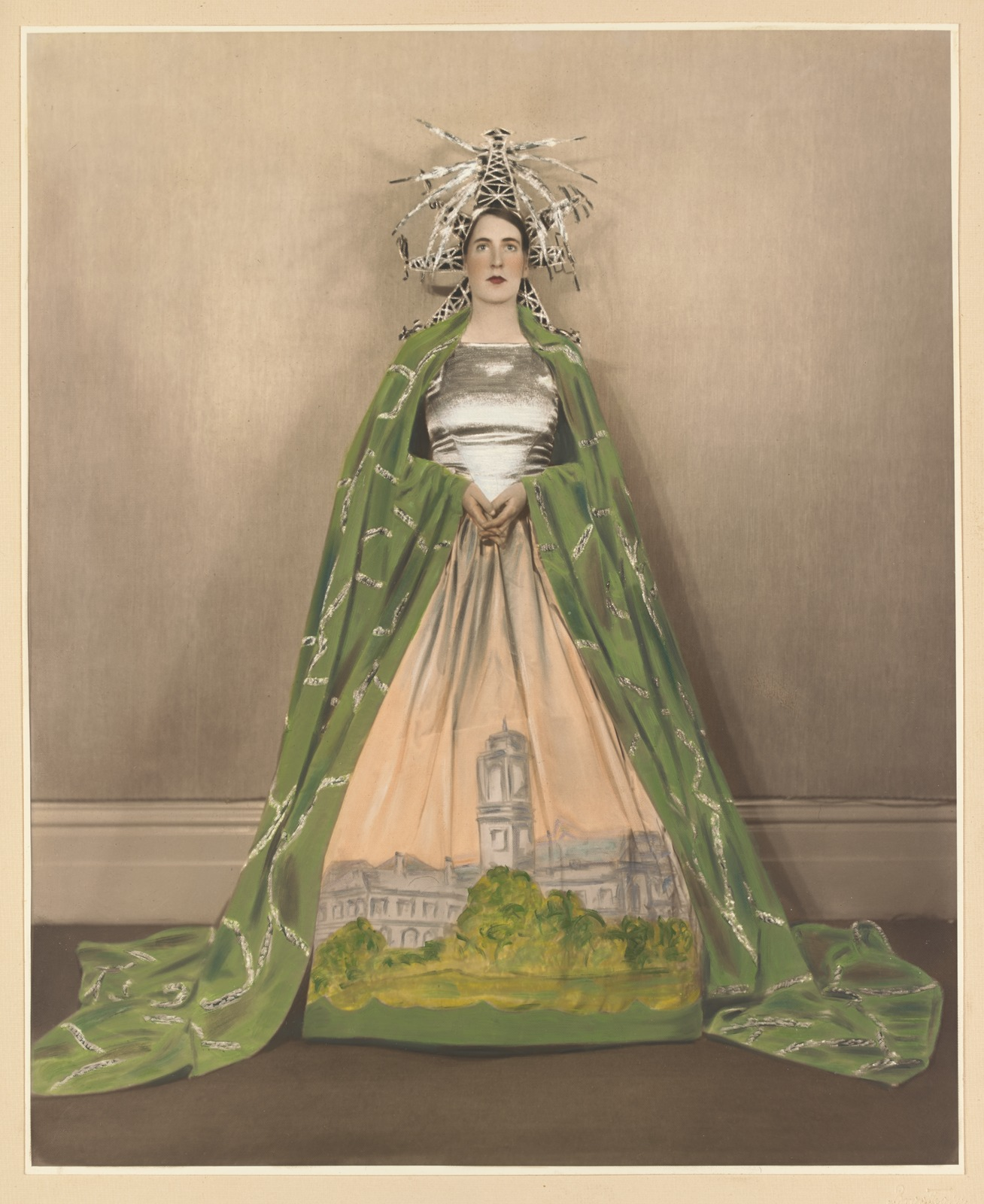 Studio portrait showing Jessie Clarke dressed in Fancy dress costume for the Centenary of Victoria celebrations in 1935.